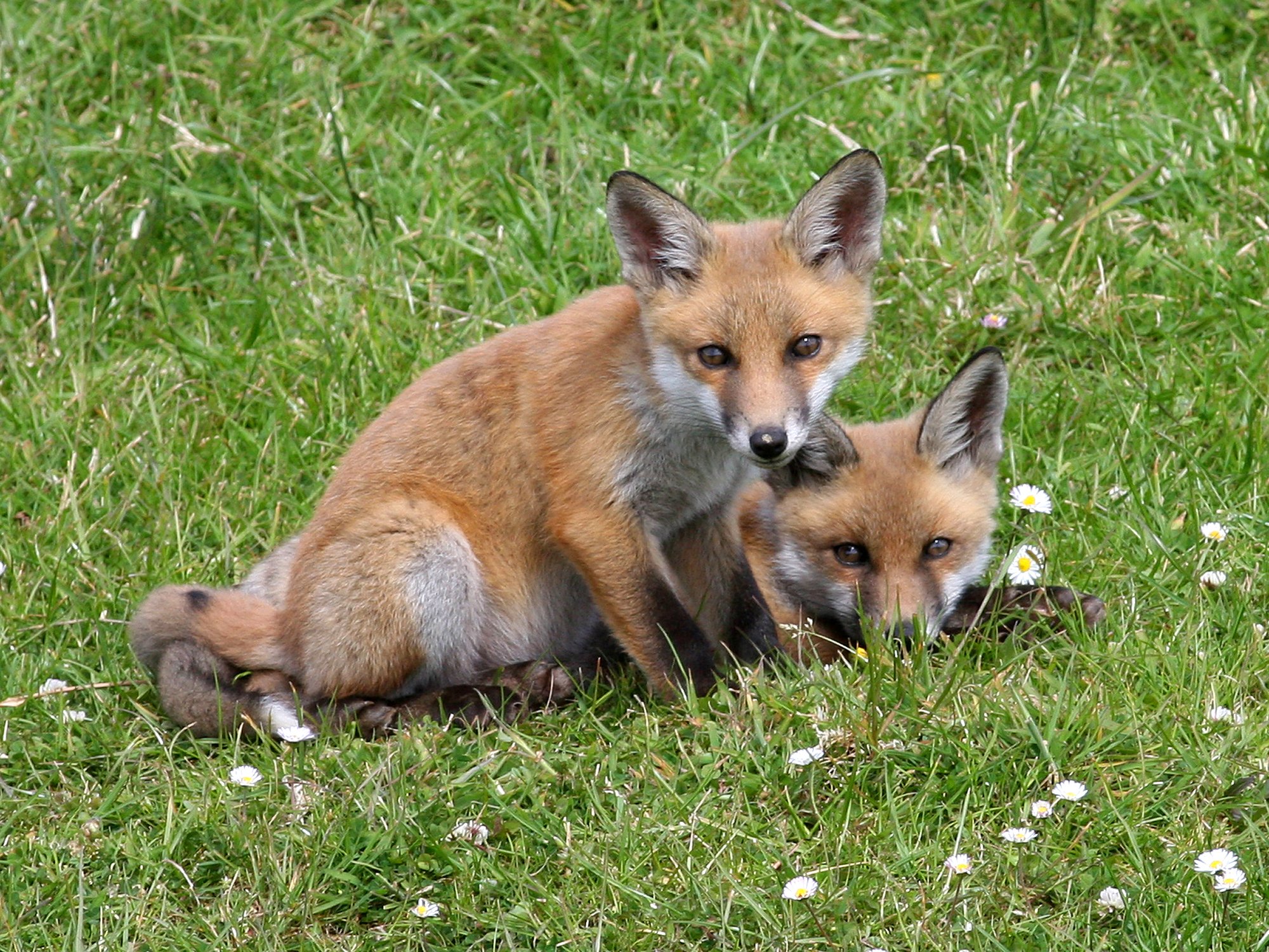 Two red foxes (Vulpes vulpes). Photo taken in Gubbeen, County Cork, Republic of Ireland.